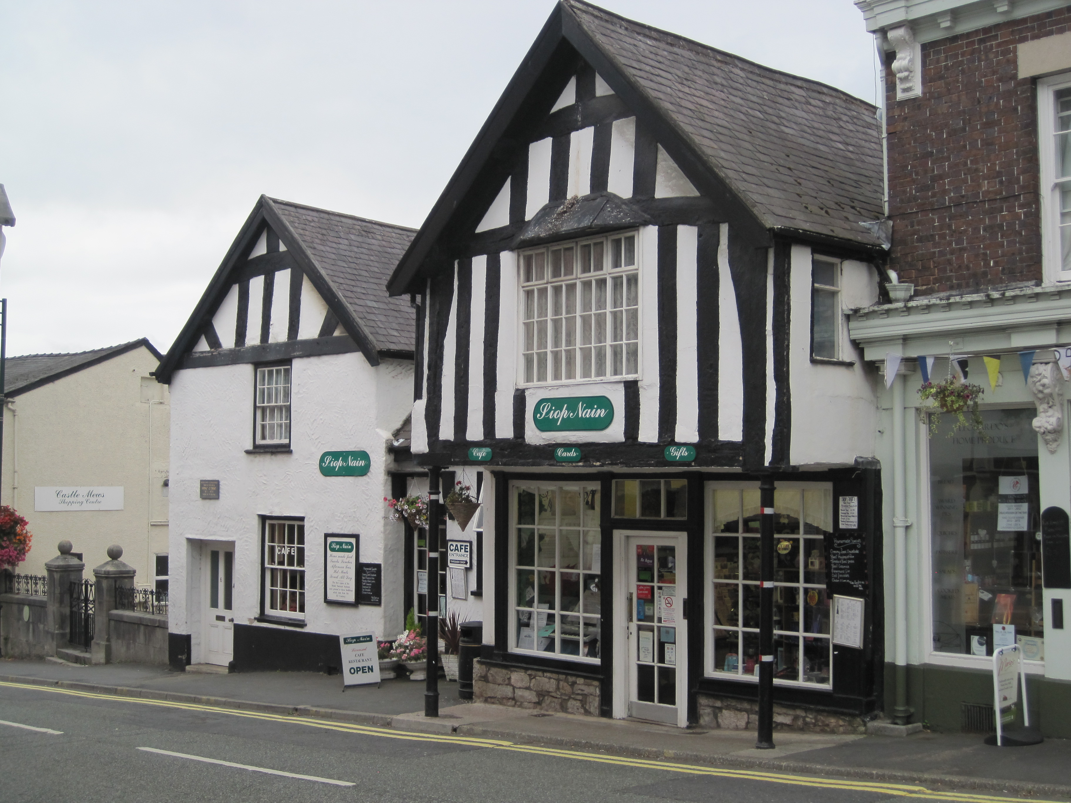 Town of Ruthin, Denbighshire, Wales. Siop Nain.